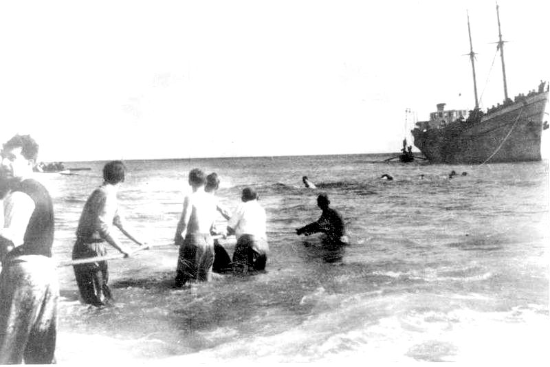 Downloading illegal immigrant ship "Ha'umot Ha'meuchadot" (in hebrew: "United Nations") on the beach of Nahariya, 1 January 1948 The Palmach, Immigration to Israel